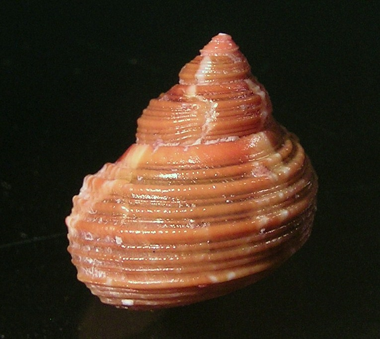 Turbo cailletii P. Fischer & Bernardi, 1857, a turban snail from the family Turbinidae; Bahamas